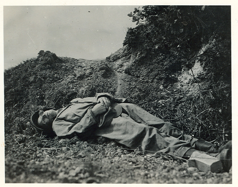 Journalist Ernie Pyle shortly after being killed on Ie Shima, April 18, 1945